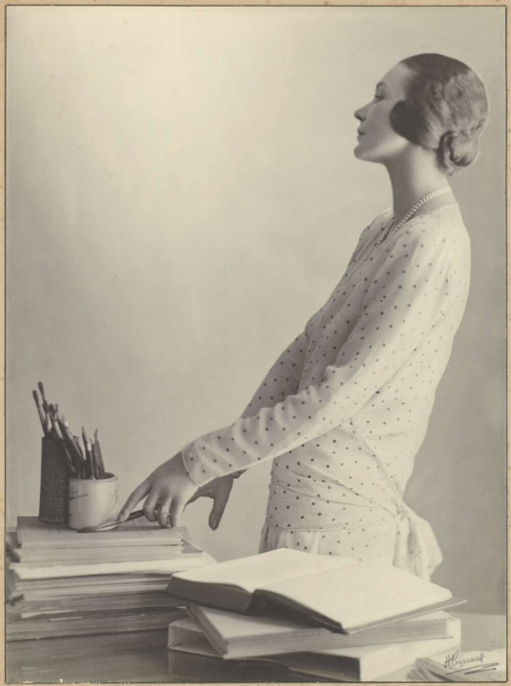 Doris Zinkeisen with her brushesDoris Zinkeisen, photographed in 1929 by Harold Cazneaux.